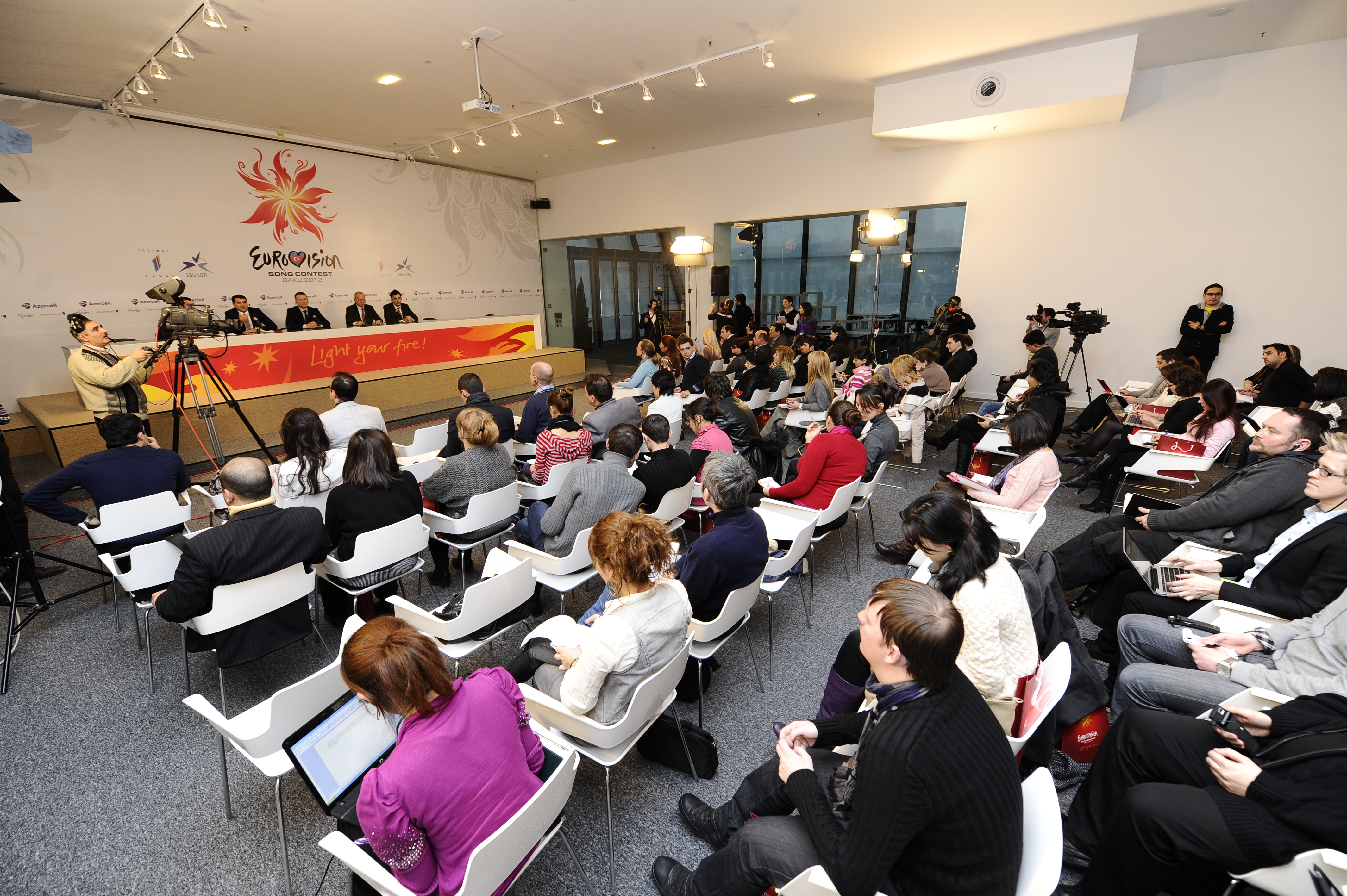 Press conference in Baku dedicated to holding Eurovision 2012